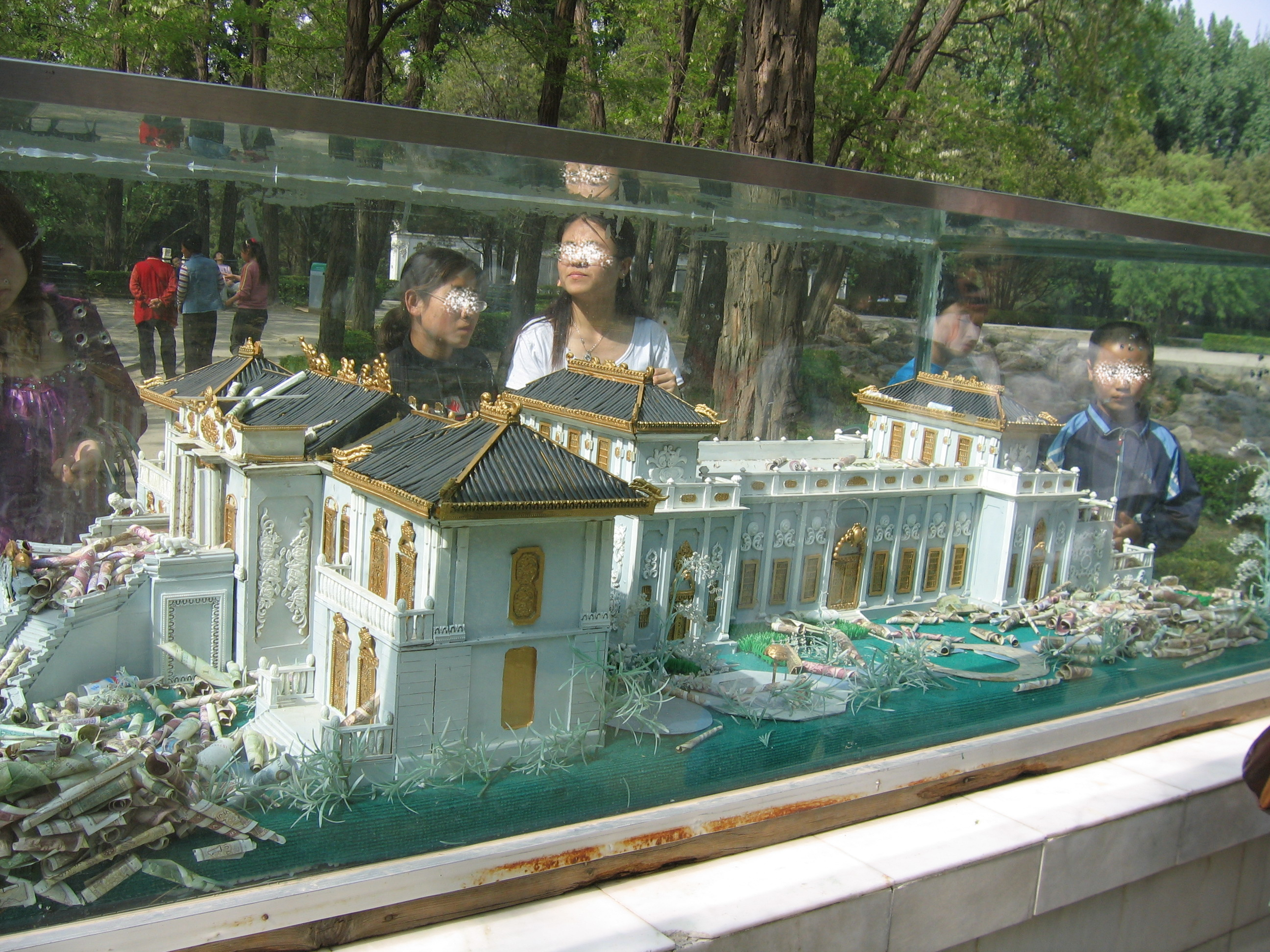 Scale model of the former French Pavilion near the ruins of original in the Xiyang Lou (Western mansions) area. On the grounds of the Yunamingyuan (Old Summer Palace) — in Beijing.